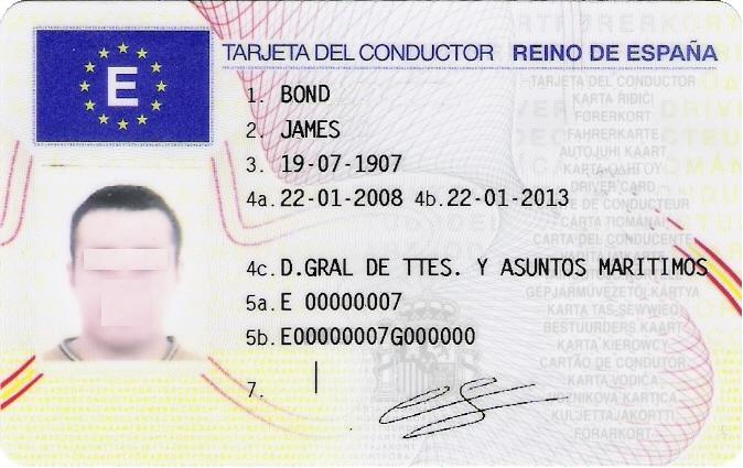 Driver card digital tachograph (front).